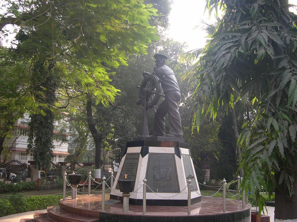 This was built in memory of the first Naval uprising. The eternal flame can be seen at the foreground.